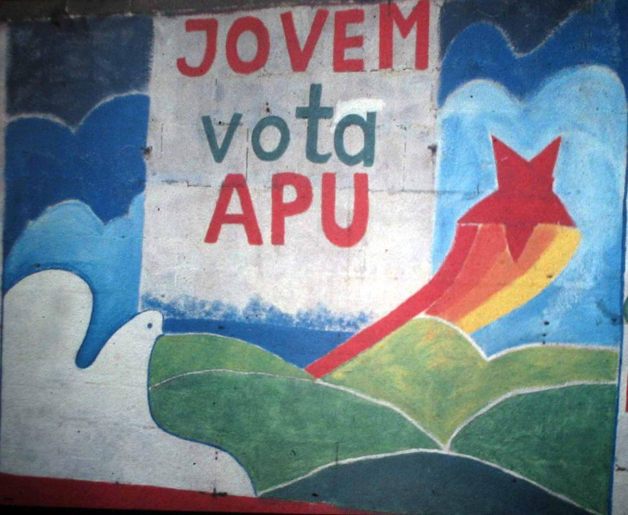 Young voting APU